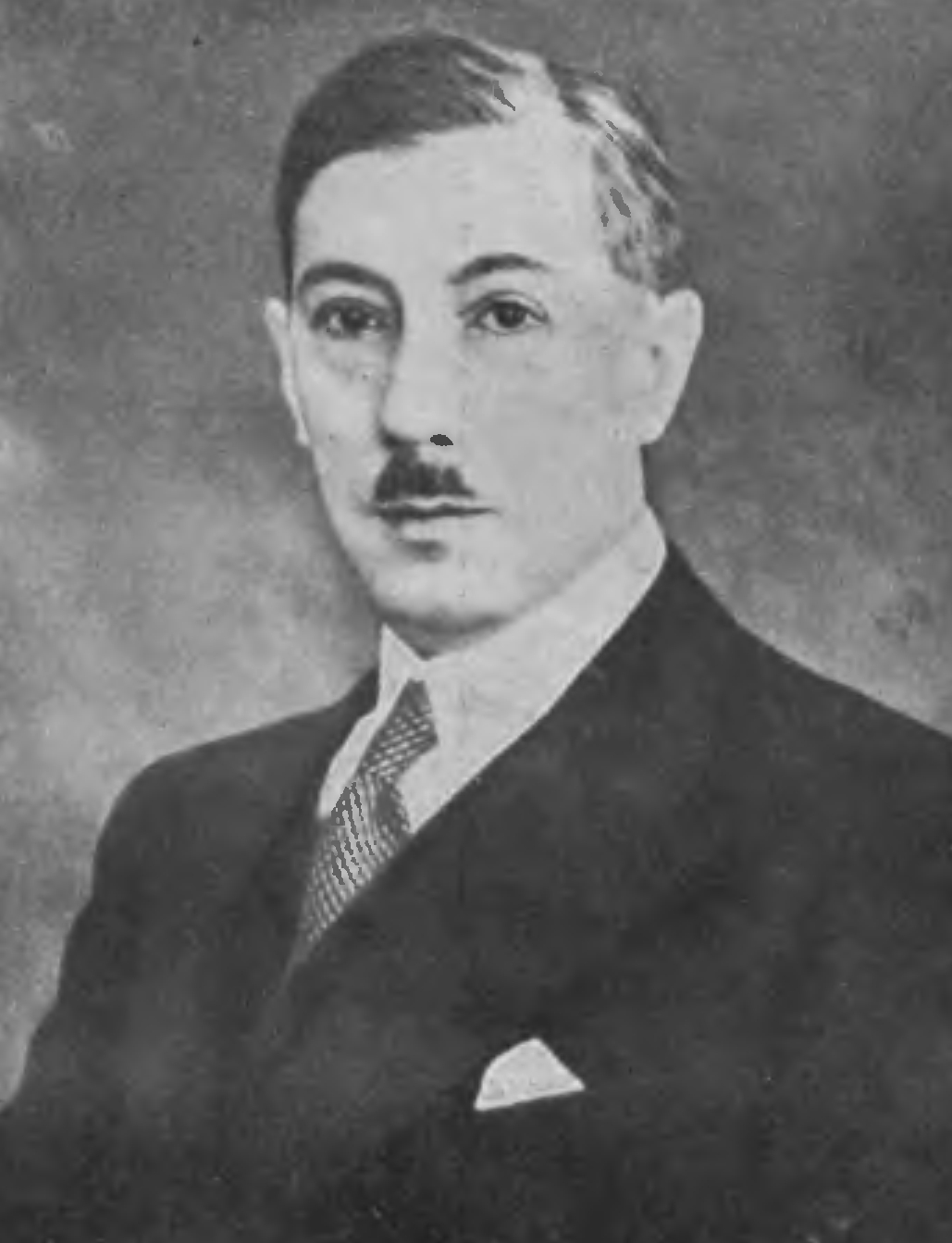 Eugeniusz Kwiatkowski, Polish politician, economist of interwar period